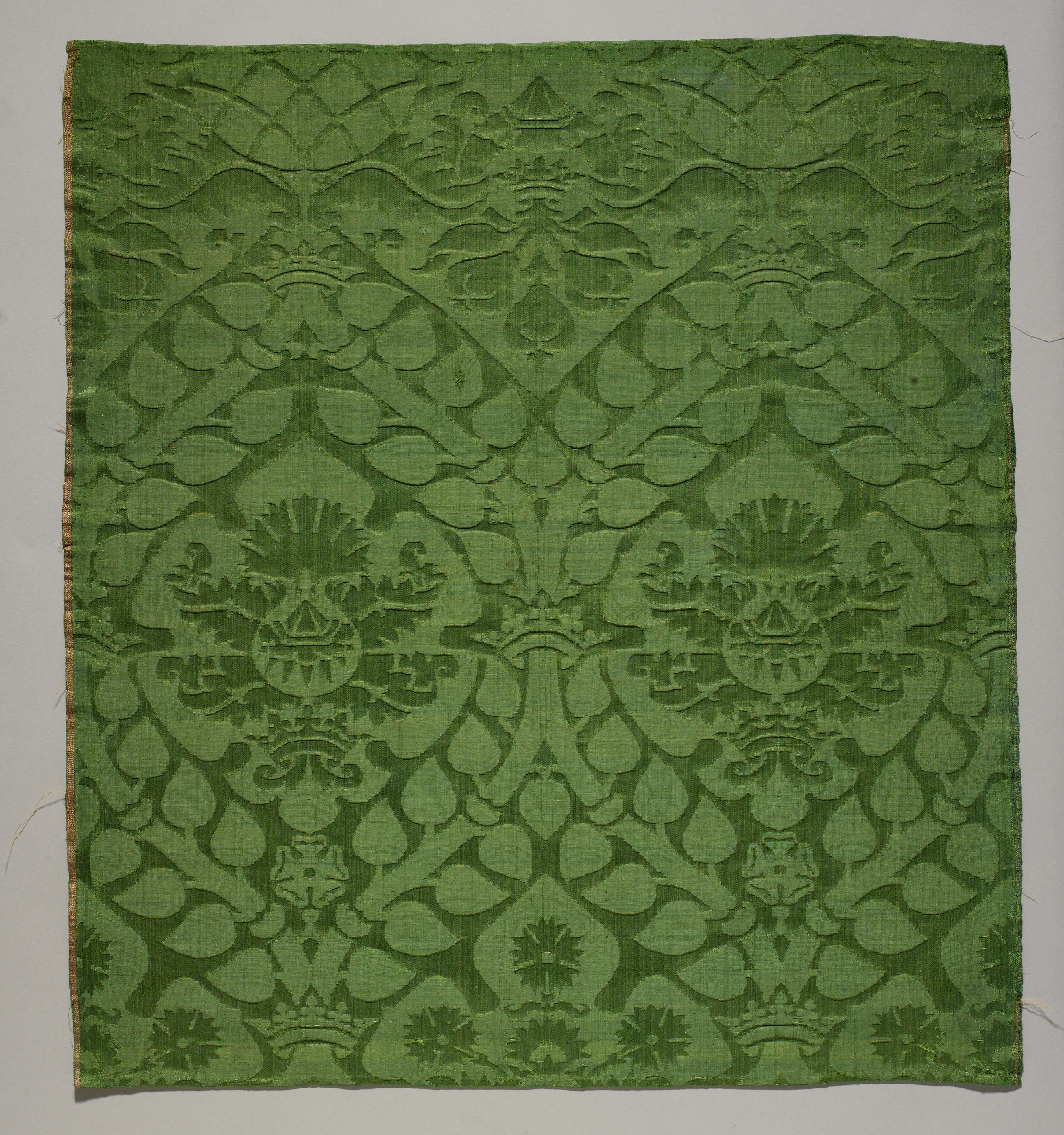 Italian; Piece; Textiles-Woven